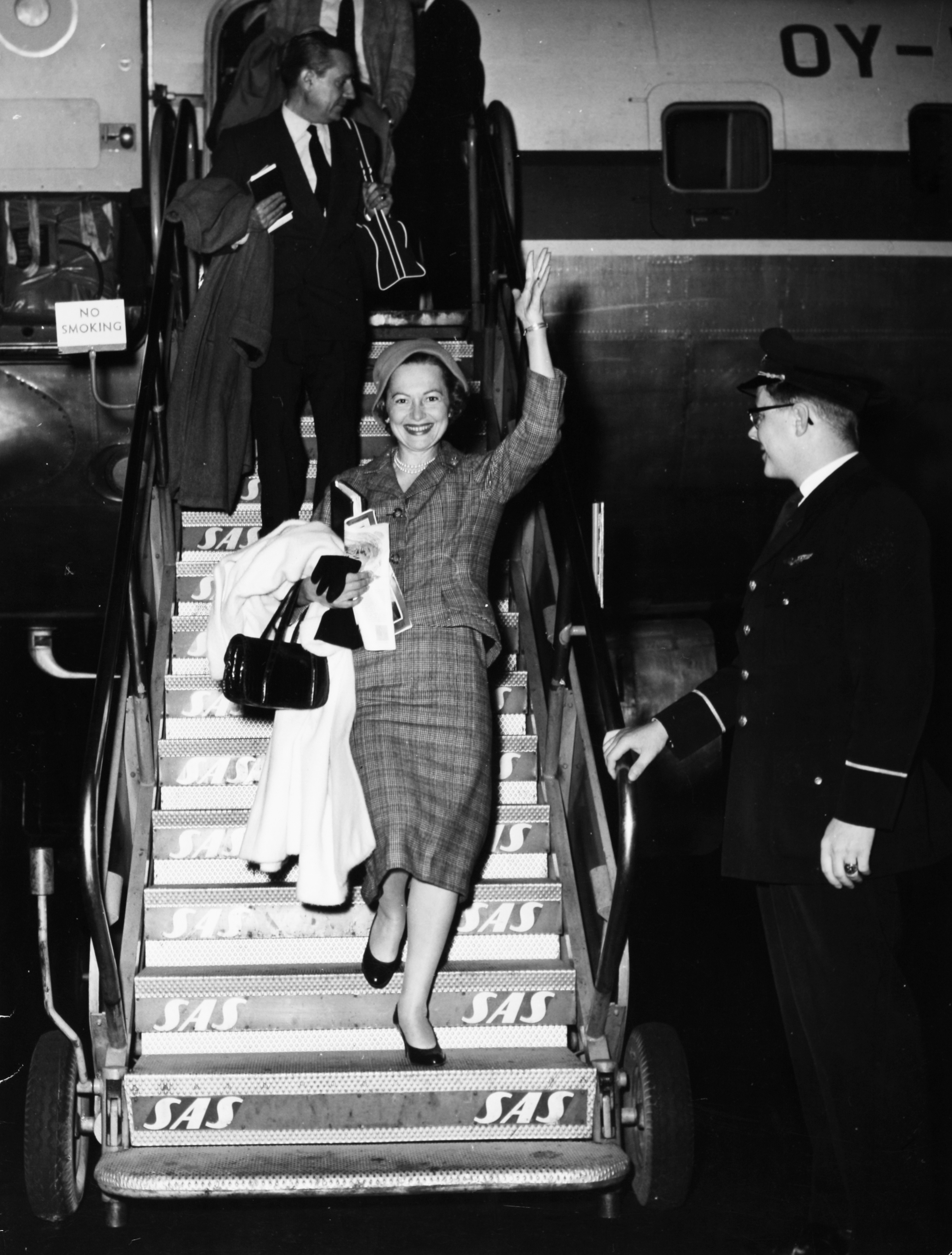 Olivia De Havilland, actress USA and husband Pierre Galante at Kastrup Airport CPH, Copenhagen 1957-08-13.